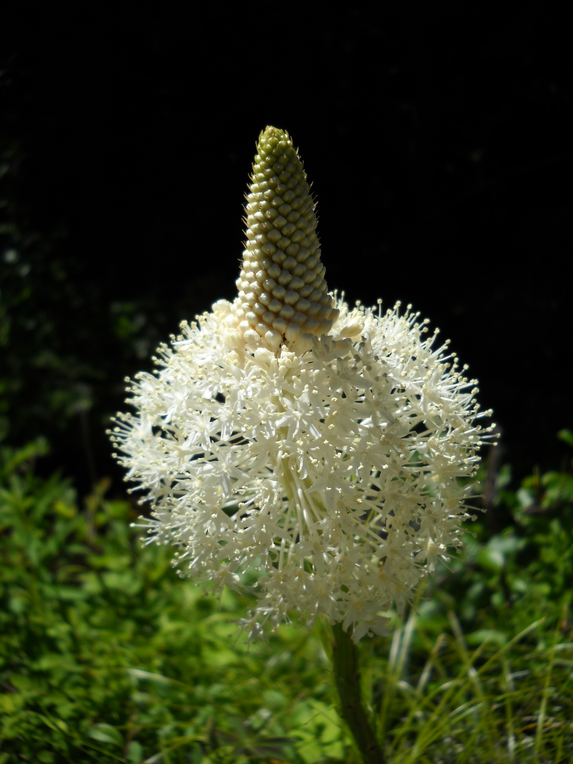 A lone head of Beargrass.